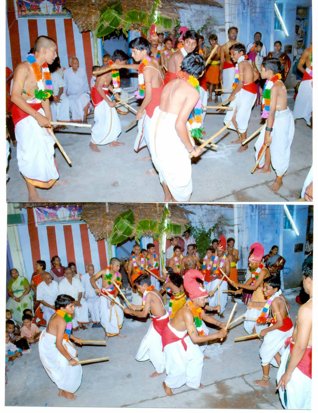 Dandi natana (koLaNe) Folk dance